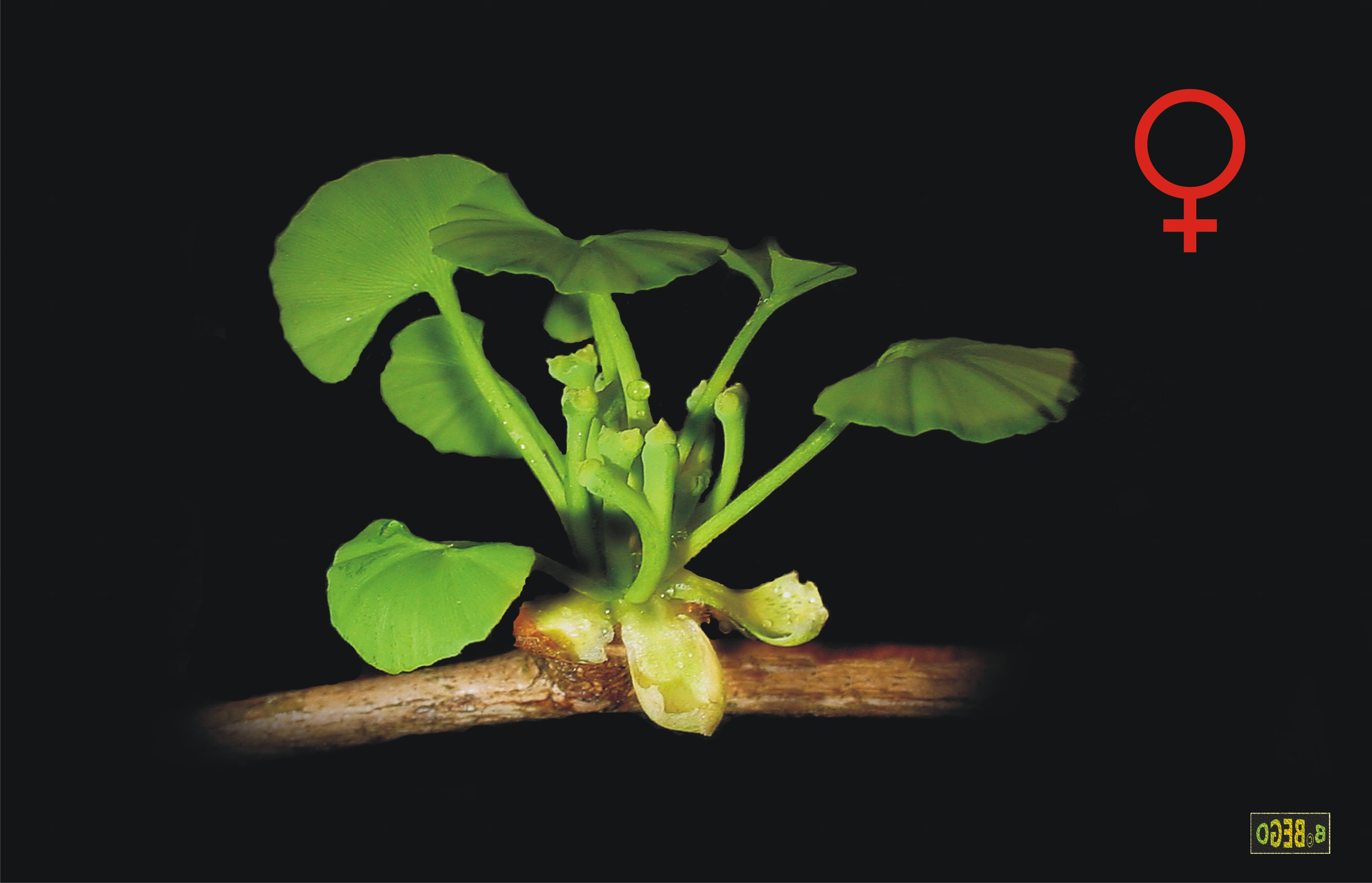 Ginkgo biloba female strobilus. By BM Begovic Bego